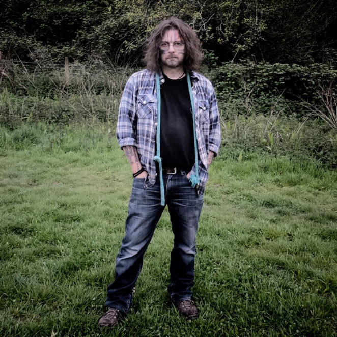 Photograph of Ian McKay in 2014